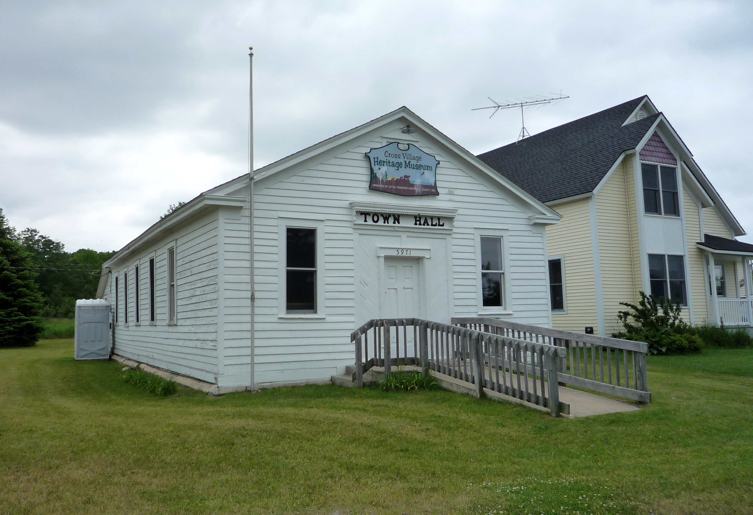 The former Town Hall, now the Cross Village Heritage Museum, Cross Village, Michigan, USA.